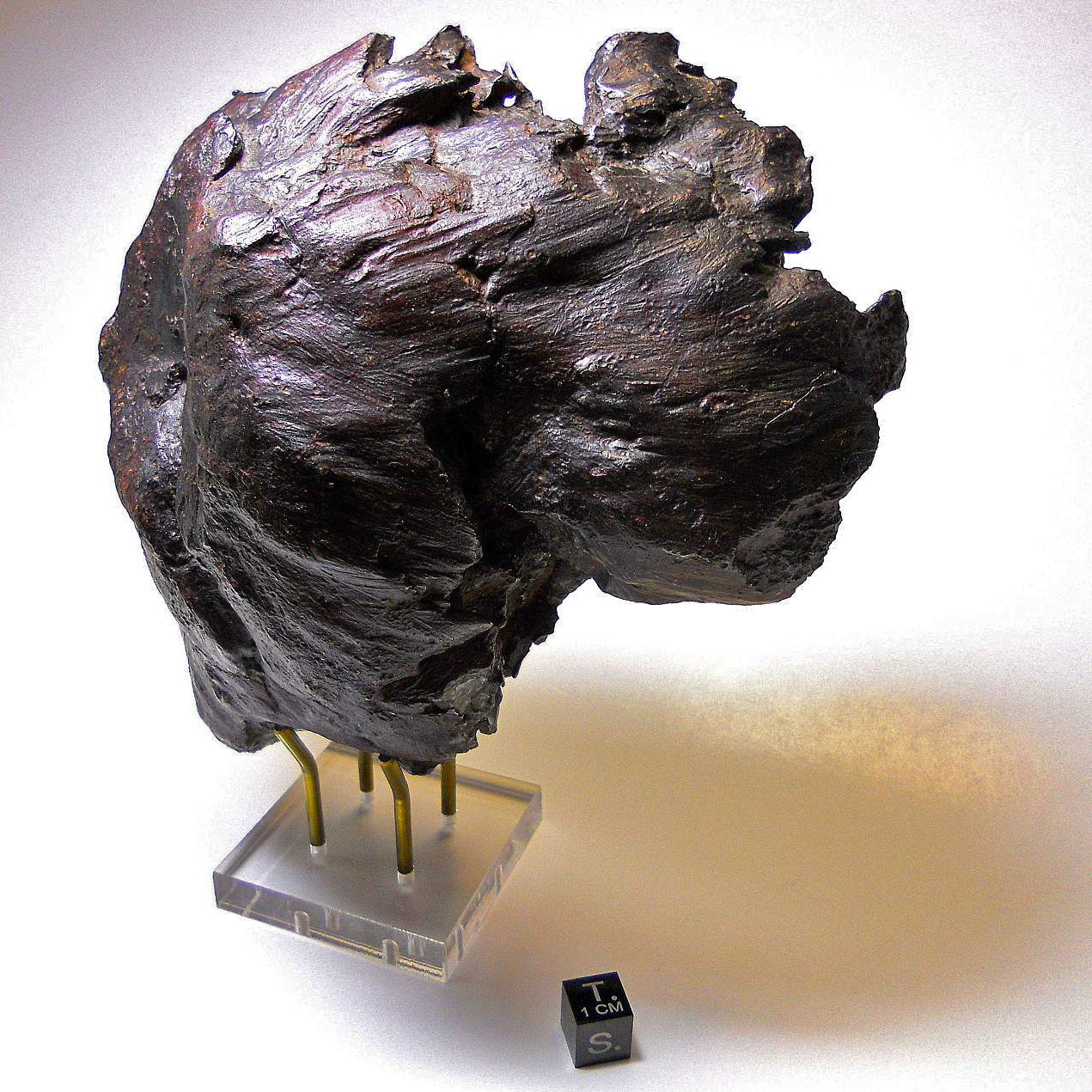 You can see the ballistic streaks of melting metal… a glorious moment frozen in place… the fiery end to a long arc from the asteroid belt. When the Sikhote-Alin meteorite hit Eastern Siberia at 10:38am in 1947, it was brighter than the sun and left a 20 mile long smoke trail in the sky that took hours to dissipate. This 3.3 kilogram fragment was probably cold-worked from a violent impact explosion with the atmosphere 3.5 miles up. It is octahedrite, composed of 93% iron, 5.9% nickel, 0.42% cobalt, 0.46% phosphorus, and 0.28% sulfur, with trace amounts of germanium and iridium.